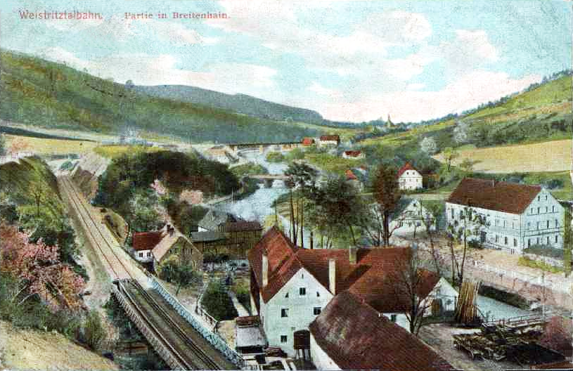 Bystrzyca Railway (Weistritzthalbahn) in Lubachów (Poland) in german postcard from 1909.